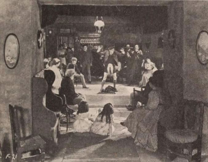 Still from the American drama film Courage (1921), on page 53 of the July 2, 1921 Exhibitors Herald. In an early film scene involving a dance at a home in Scotland, a man's kilt falls off.